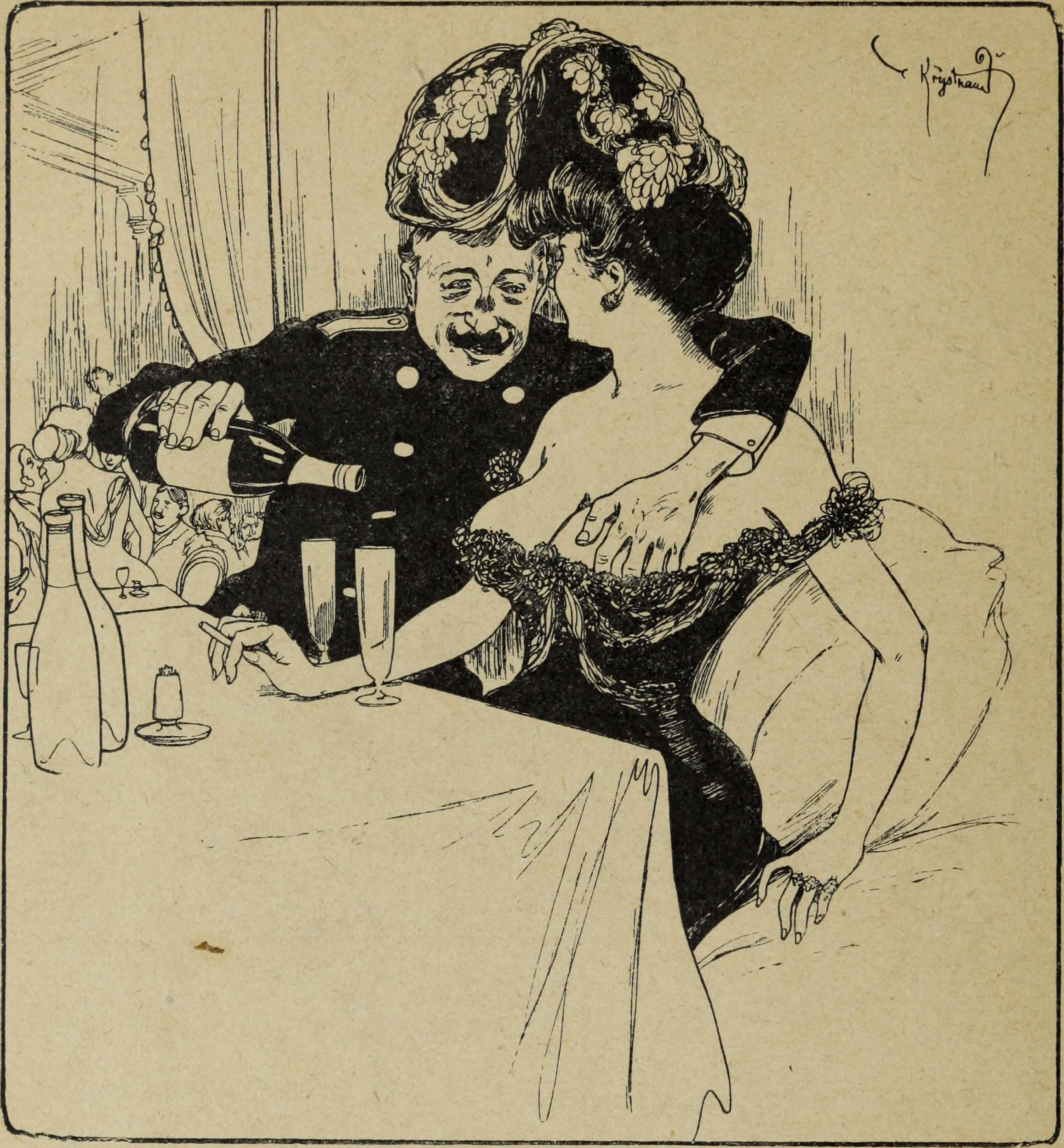 Title: Images galantes et esprit de l'etranger: Berlin, Munich, Vienne, Turin, Londres Year: 1905 (1900s) Authors: Grand-Carteret, John, 1850-1927 Subjects: Wit and humor Sex Publisher: Paris, Librairie Mondiale Text Appearing Before Image: ' Text Appearing After Image: MONSIEUR LE COMMISSAIRE ! — Mais, commissaire, que fais-tu donc ? Tu pèches contre la morale ! — Laisse-moi tranquille avec toutes tes mauvaises blagues ! Dans tes mo-ments de travail, tu relèves tes jupes, et moi, dans les miens, je relèvela morale ! Voilà tout. Caricature de C. Kôystrand (\\ iener Caricaturen) JOHN GRAND-CARTERET Images Galantes et Esprit de lÉtranger BERLIN ♦ MUNICH ♦ VIENNE TURIN ♦ LONDRESimagesgalanteset00gran